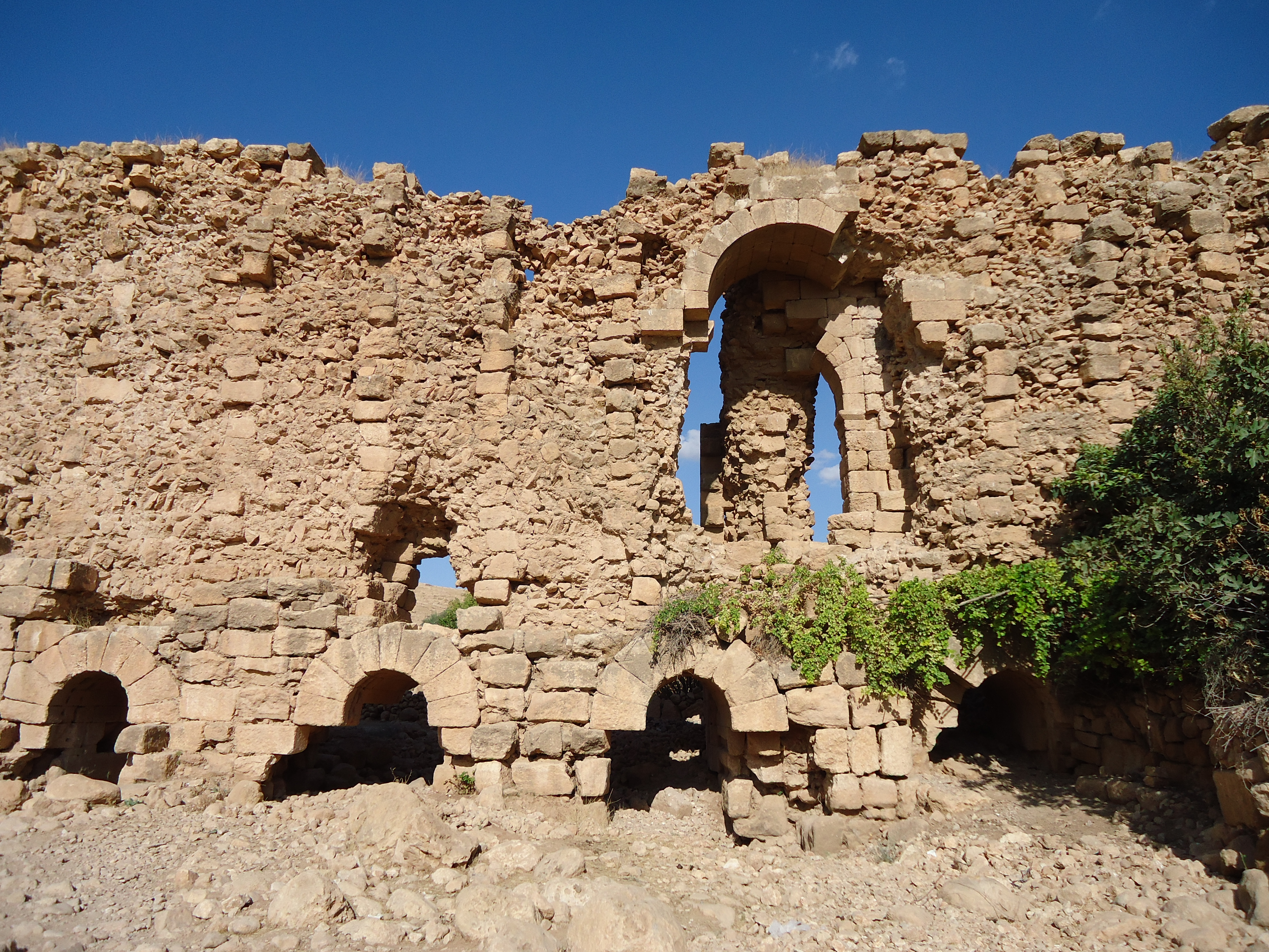 Emperor Justinian's city walls of Dara